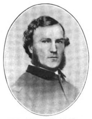 "Colonel James G. Grindlay; Brevet Brigadier-General" Portrait of James Grindlay of the 146th New York Volunteer Infantry, Medal of Honor recipient for his actions in the American Civil War.